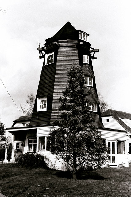 Rock Common Windmill, Washington Rock Common Smock Windmill was built c1826. It was converted into a private residence around 1920 and today is used as offices by the quarry company. In the 1950's it was the home of the composer, John Ireland (1879-1962).